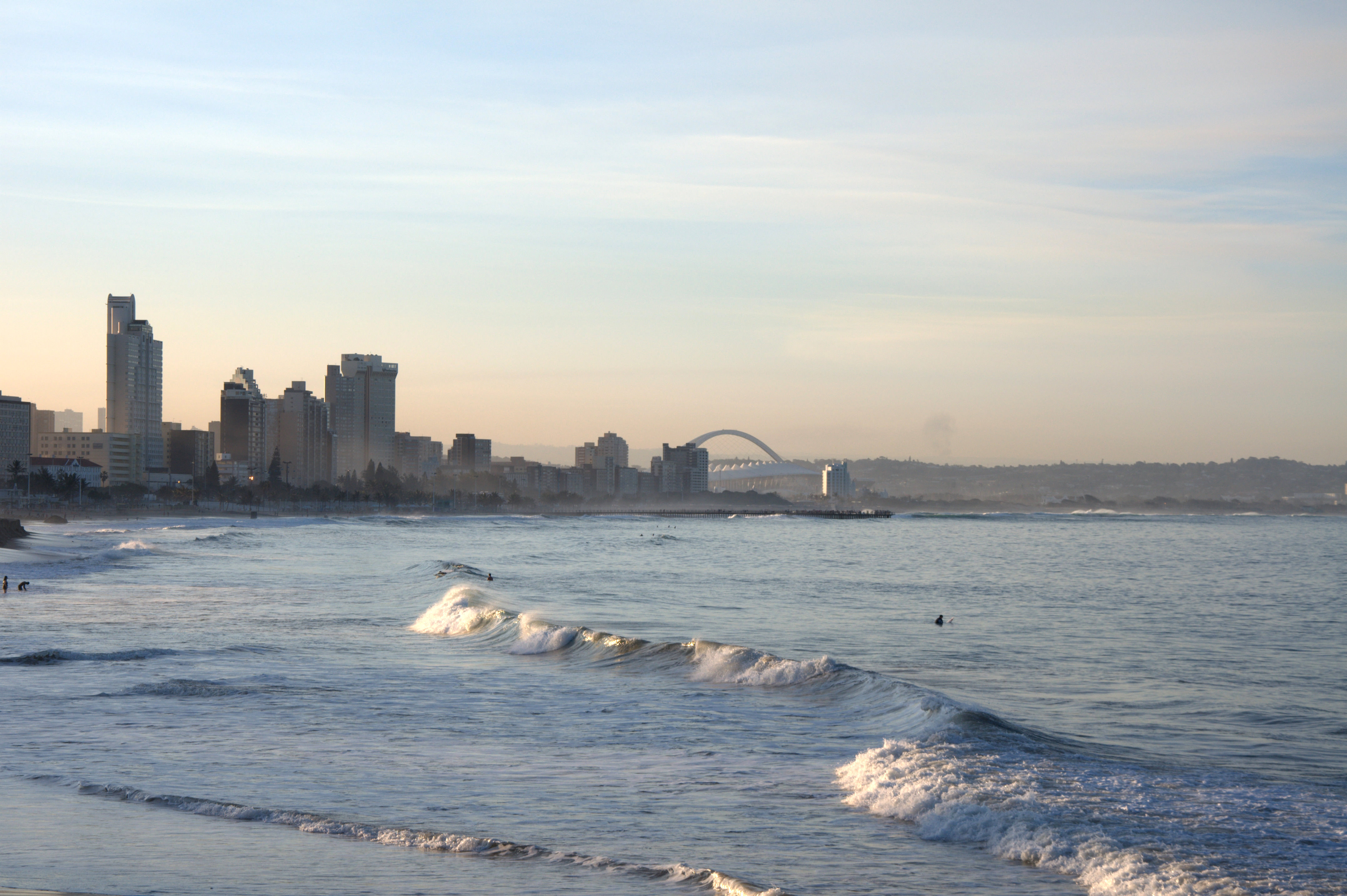 South Africa, Durban beach